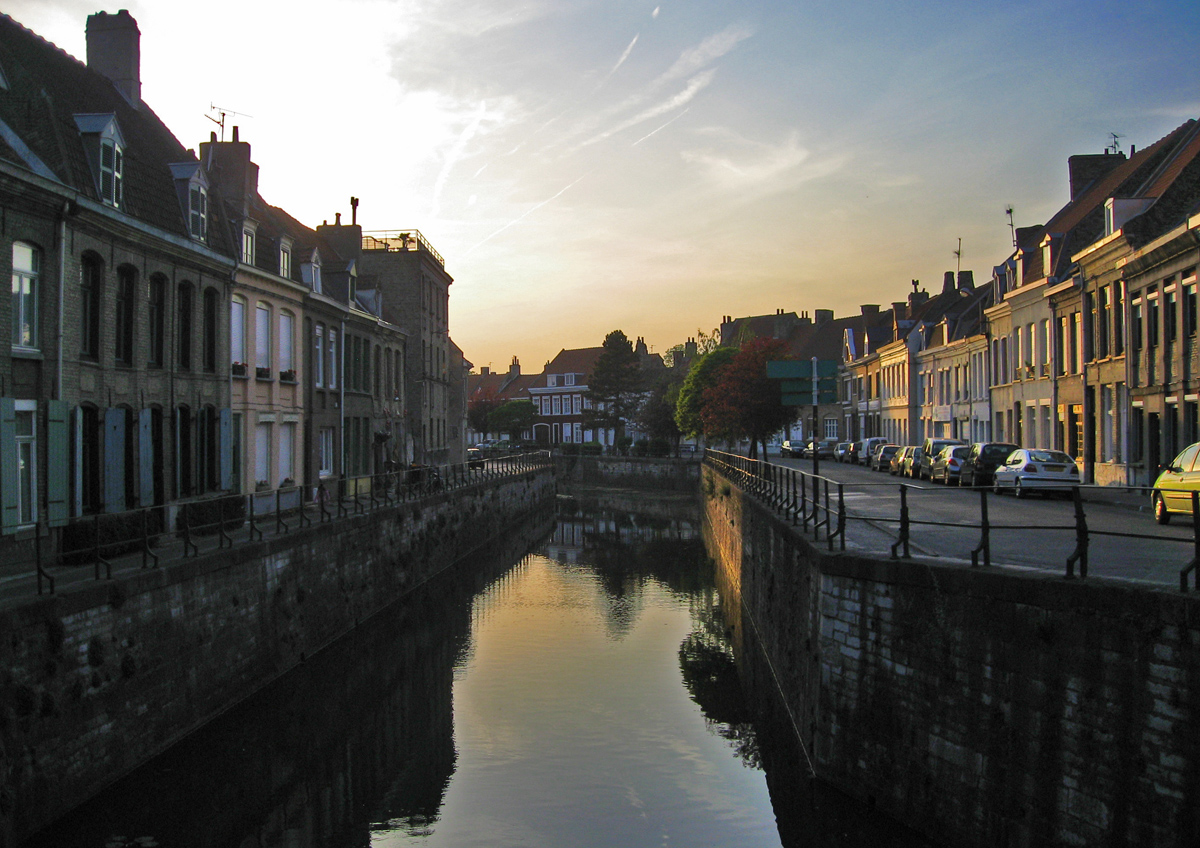 The canal of Colme in Bergues, Nord-Pas-de-Calais, France